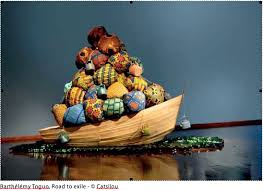 beautiful